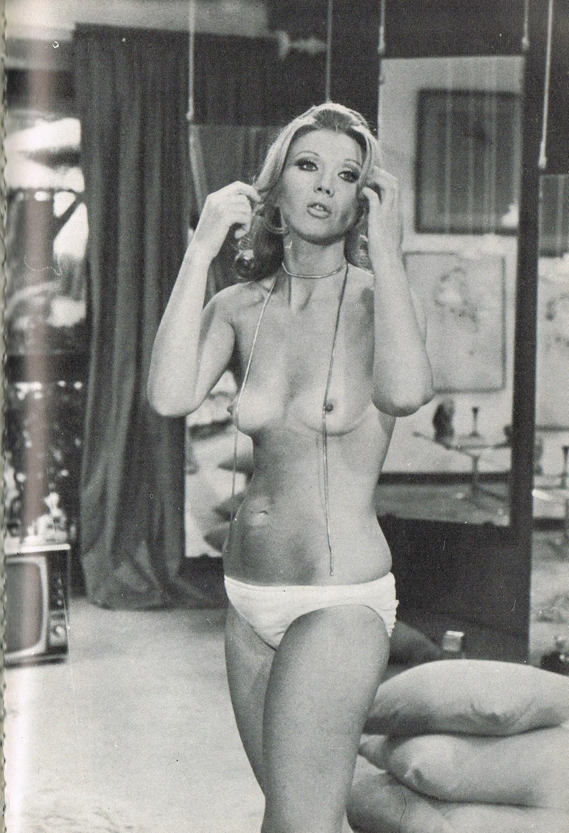 Italian actress Erna Schürer (born Emma Costantino in Naples) in the Italian giallo film Your Hands on My Body (1970) (Italian: Le tue mani sul mio corpo).